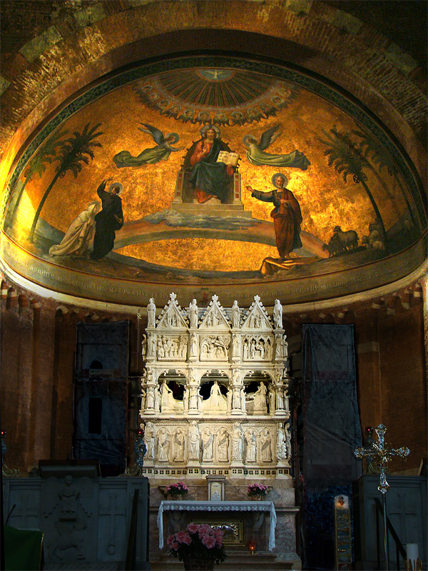 San Pietro in Ciel d'Oro a Pavia, Lombardy, Italy. Tomb of St. Augustine in front of the apse with its "Golden Sky".